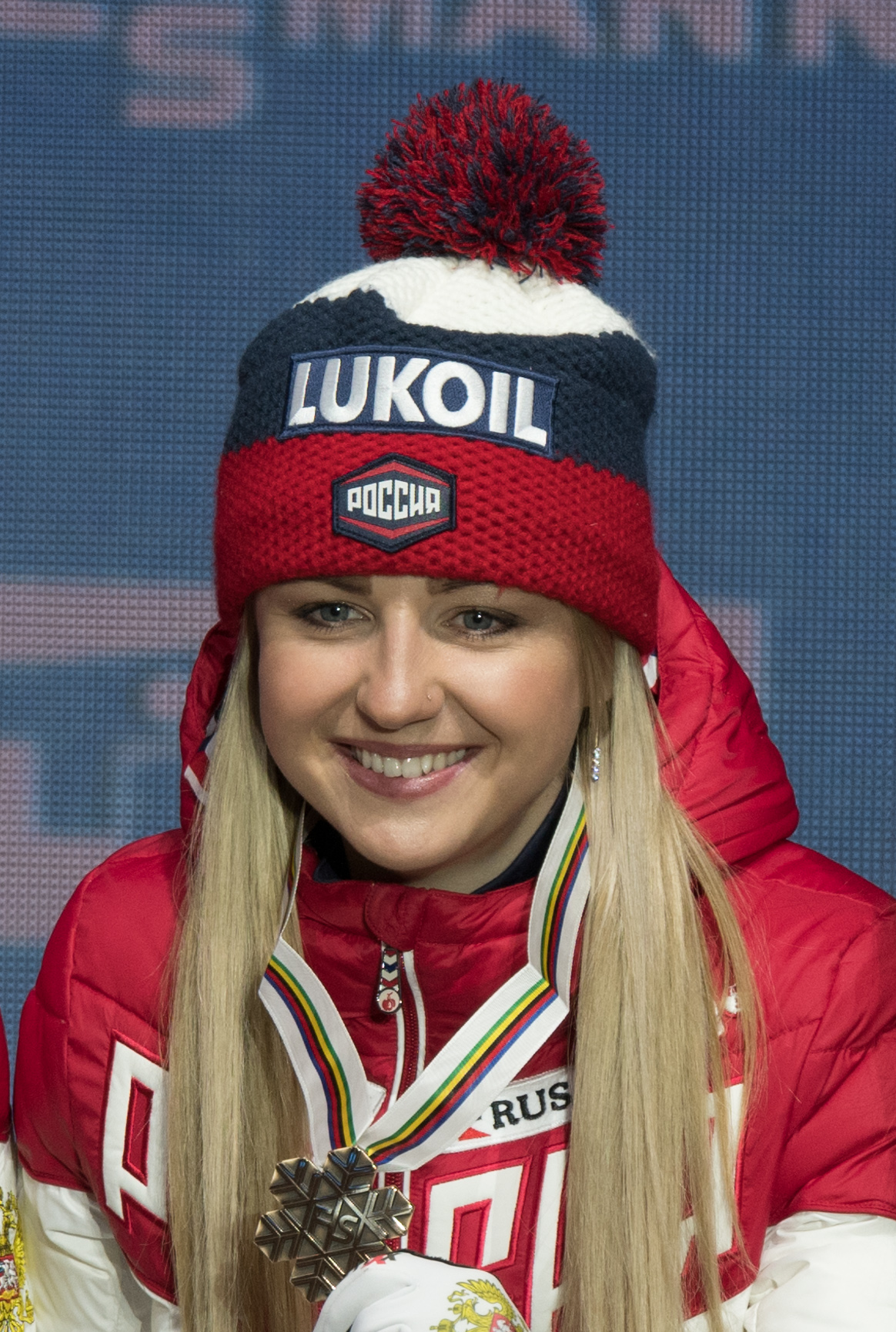 FIS Nordic Wolrd Ski Championships Seefeld 2019 - Medal Ceremony at the Medal Plaza. Picture shows Anna Nechaevskaya (RUS).